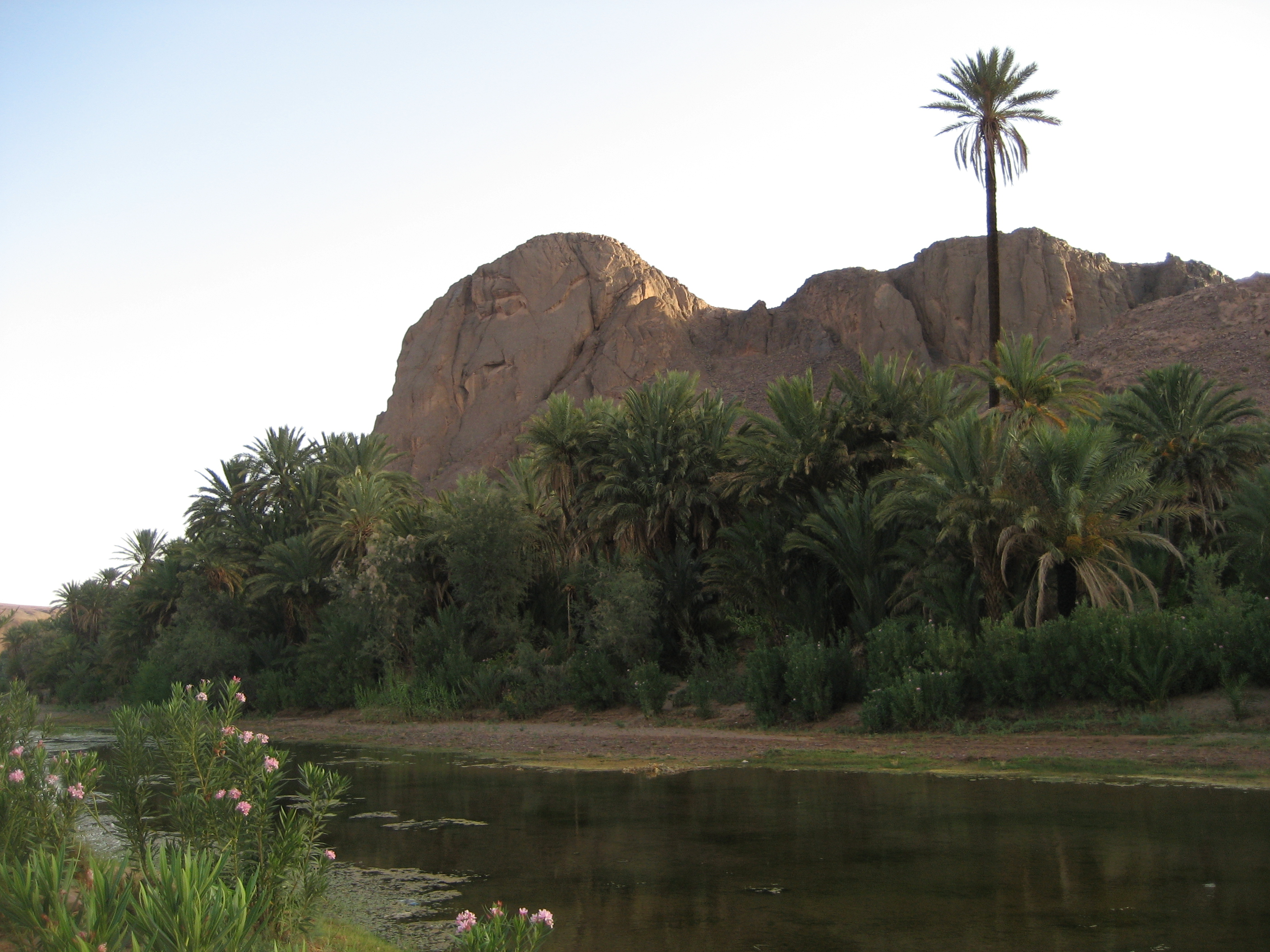 Fint Oasis, near Ouarzazate, Morocco / Maroc